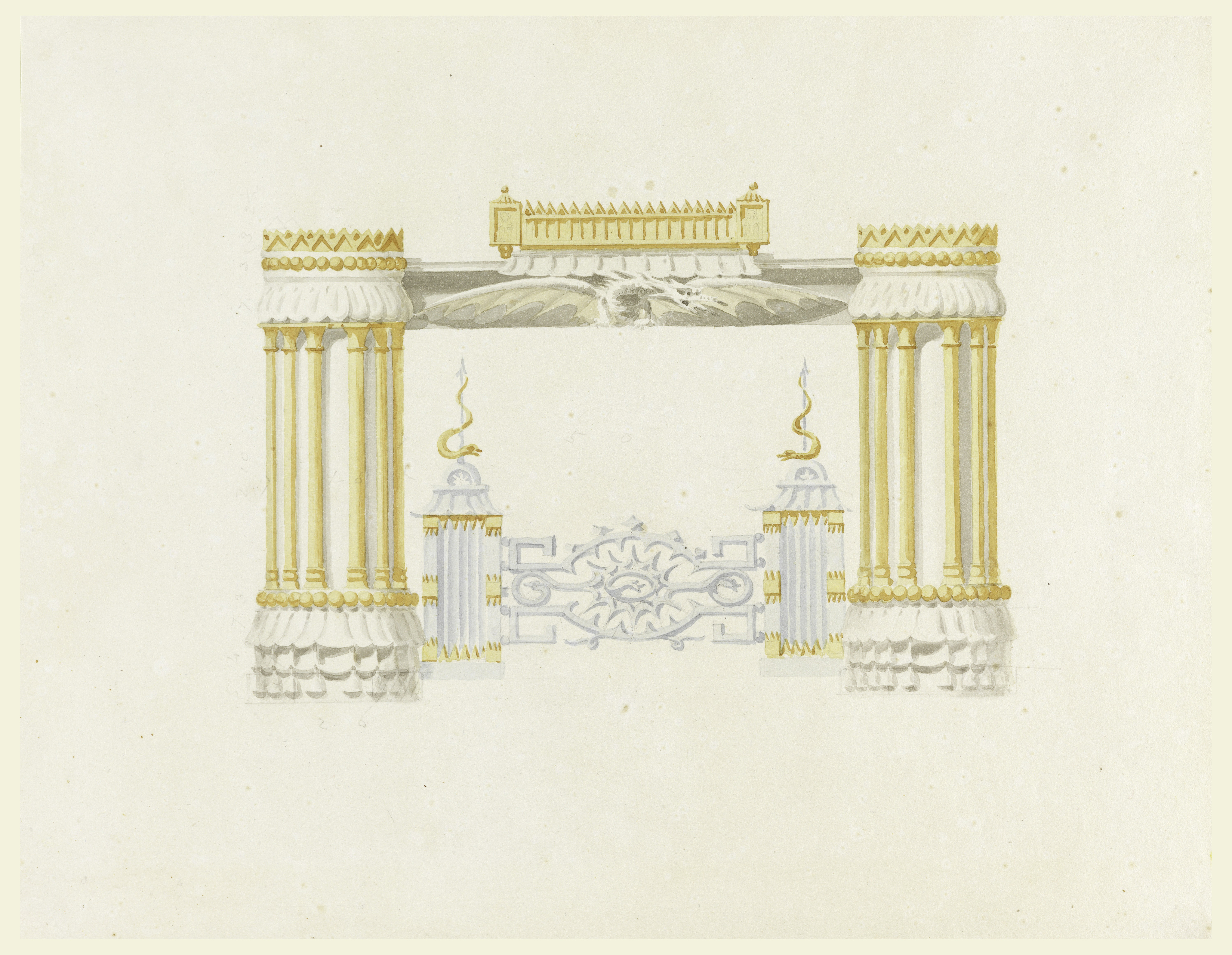 Horizontal rectangle. Design for the Royal Pavilion, Brighton. The vertical elements of the design are semicircular in section composed of a series of colonnettes with simple capitals and bases. The entablature of the mantel is composed of a dragon with outstretched wings, in bold relief. Andirons and fire-screen, in the Chinese style, included in design. Original album associated with this collection still exists. See 1948-40-1 accessory